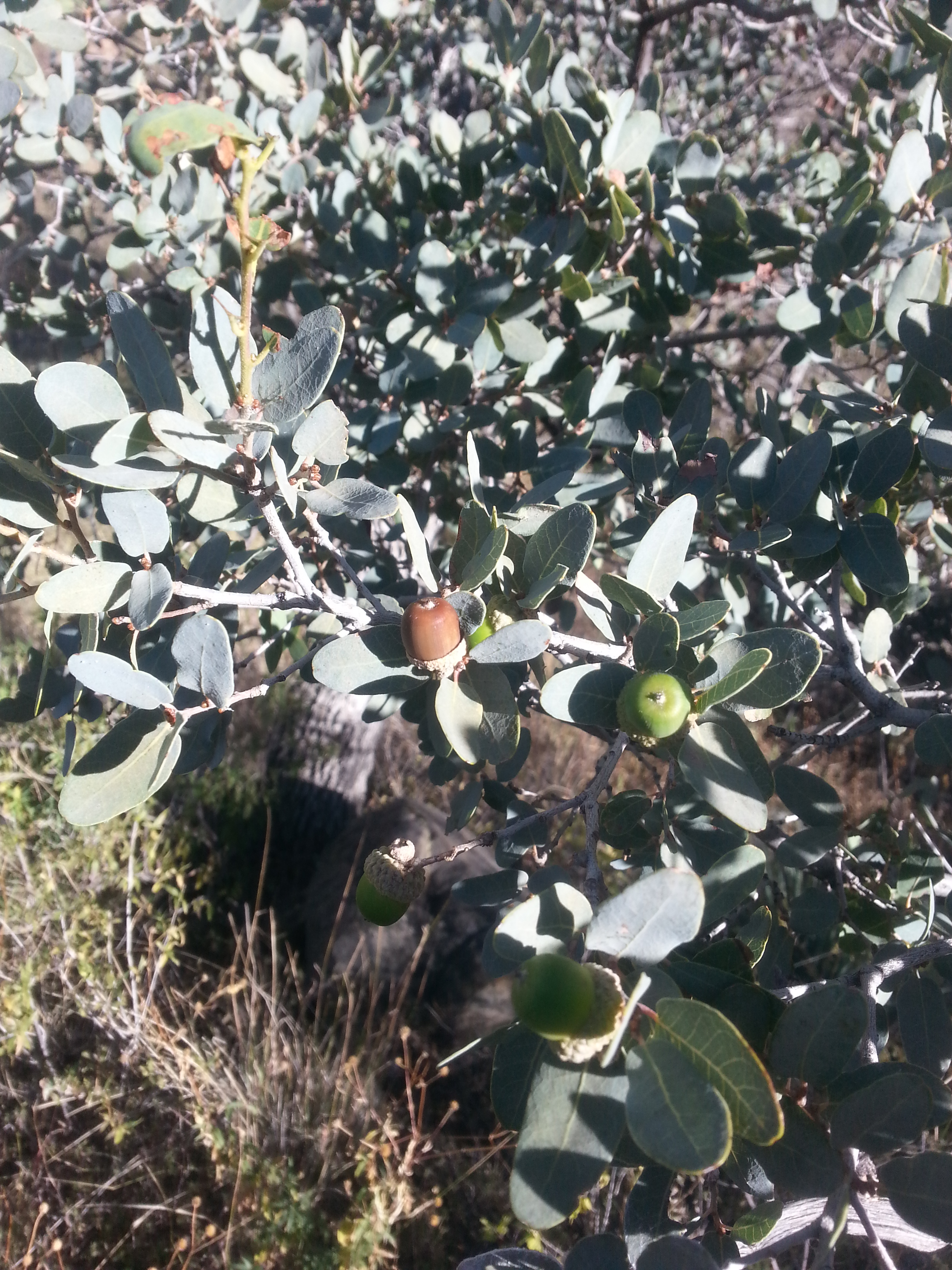 Quercus oblongifolia acorns